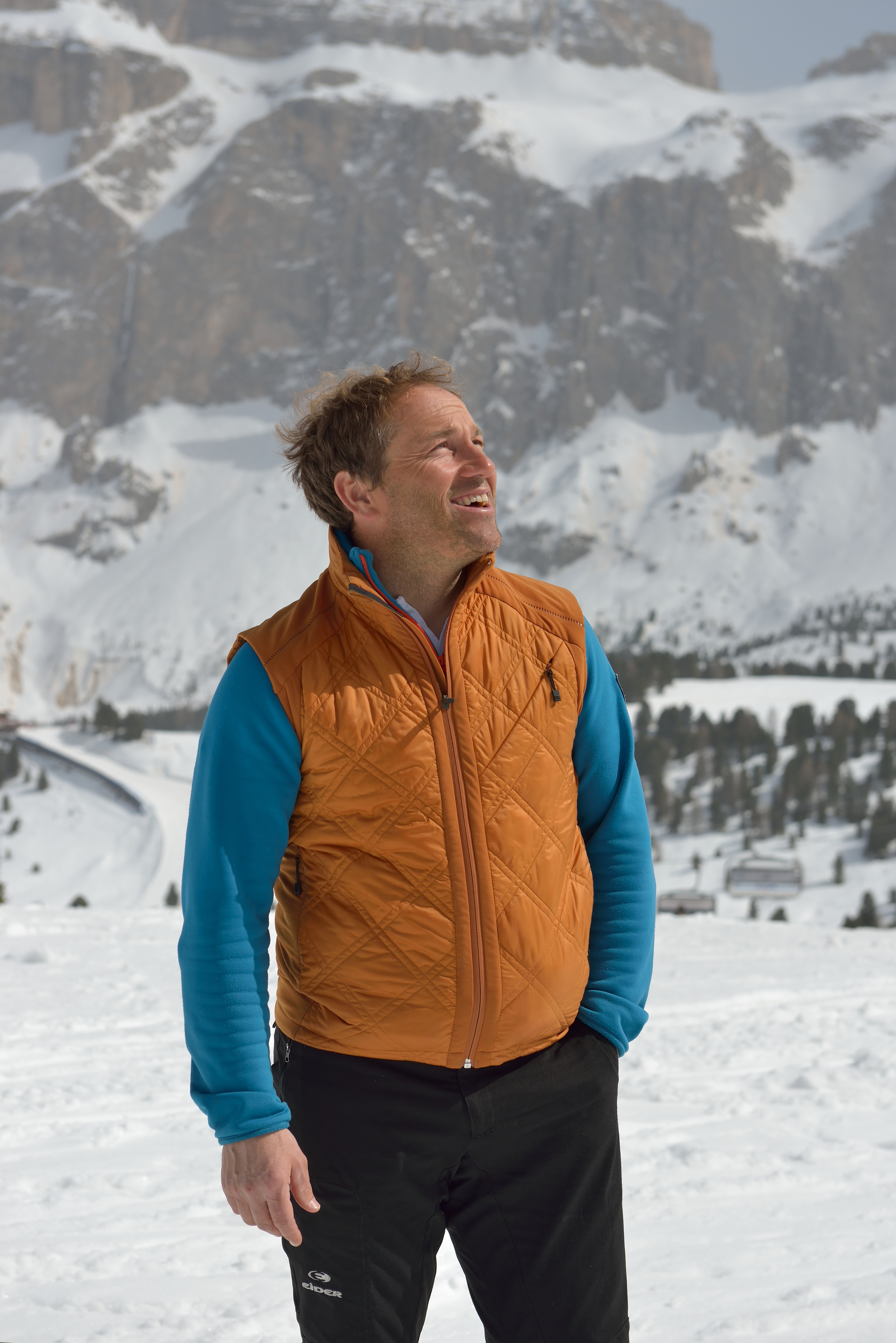 Peter Runggaldier alpine downhill skier in Gröden, South Tyrol